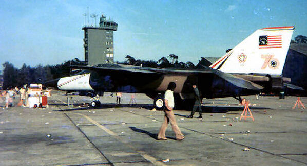 F-111E 68-0028 of the 20th Tactical Fighter Wing - RAF Upper Heyford UK. Shown painted in 1976 Bicentennial motif. Photo taken by author at 1976 Ramstein AB Germany airshow